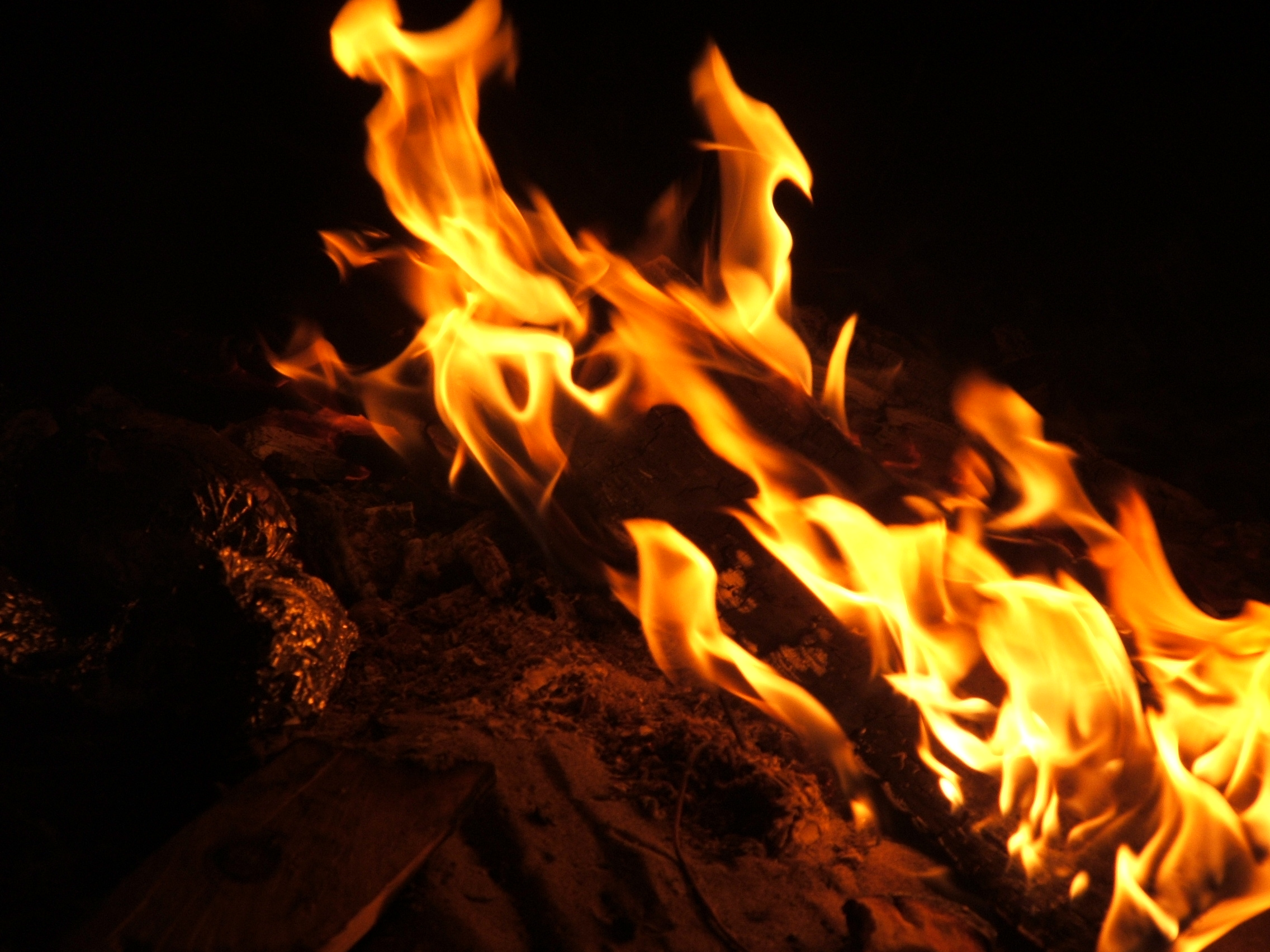 campfire with potatoes Unknown